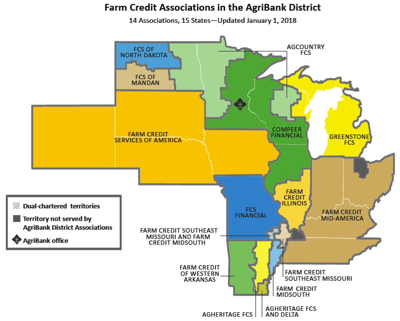 AgriBank District Map